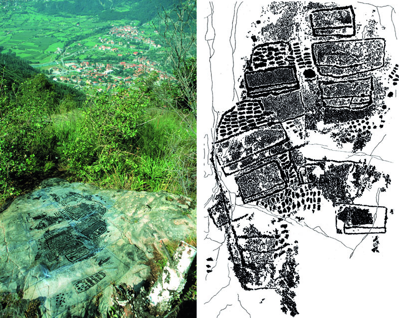 Camonica Valley rock art, the rock 29 of Paspardo, a large topographic composition engraved during the late Neolithic or the first Copper age, IV mill. BC, picture and tracing (Footsteps of Man tracing)